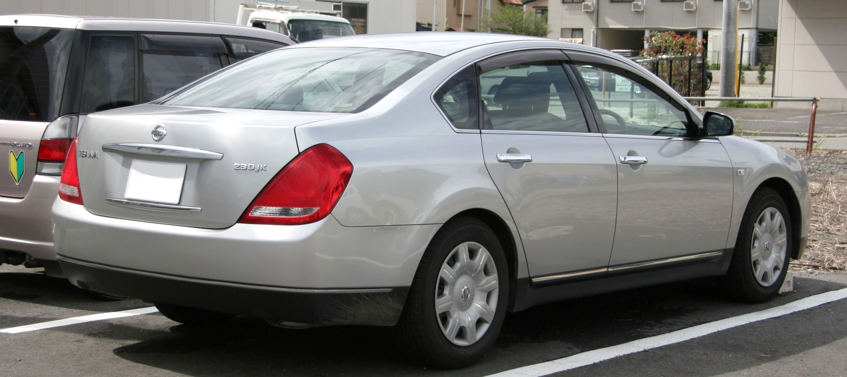 NISSAN TEANA